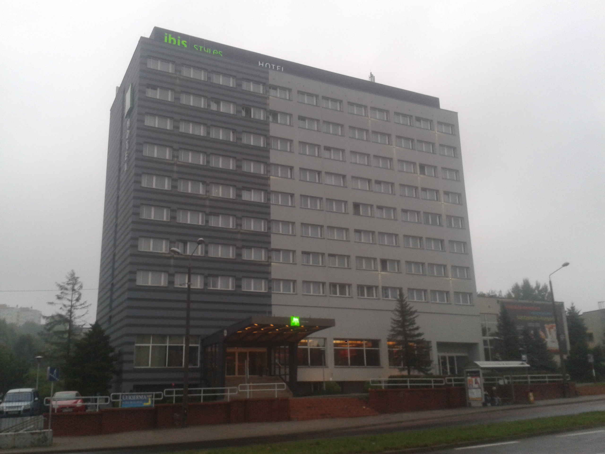 Ibis Styles Hotel in Bielsko-Biała, leszczyny district